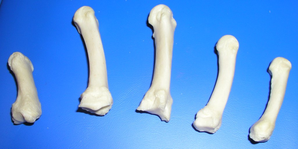 metacarpal bones, medial view, l. sin. (left hand)